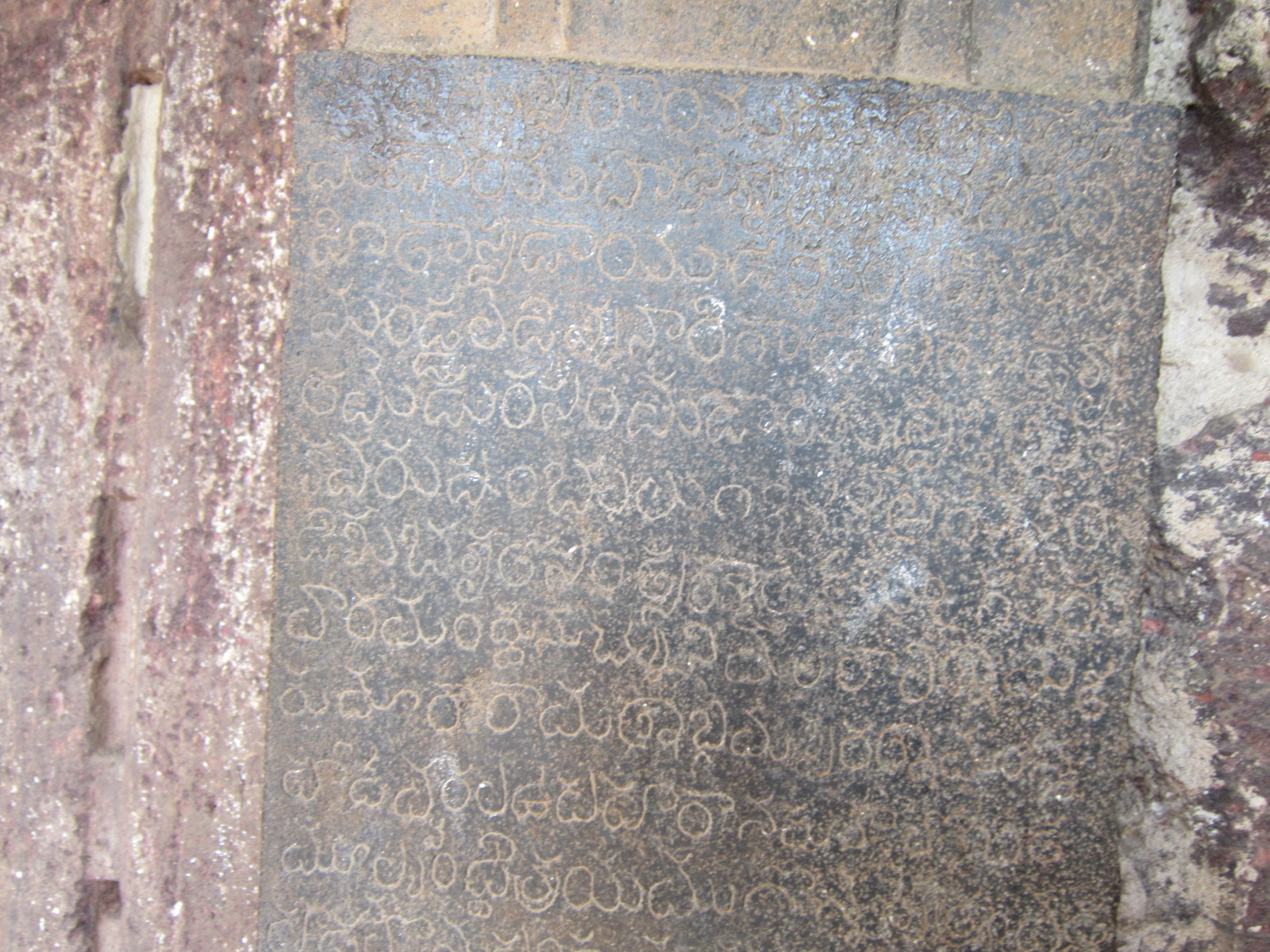 carving on thestonepillarof kumararamabhimesvara temple,samalkota